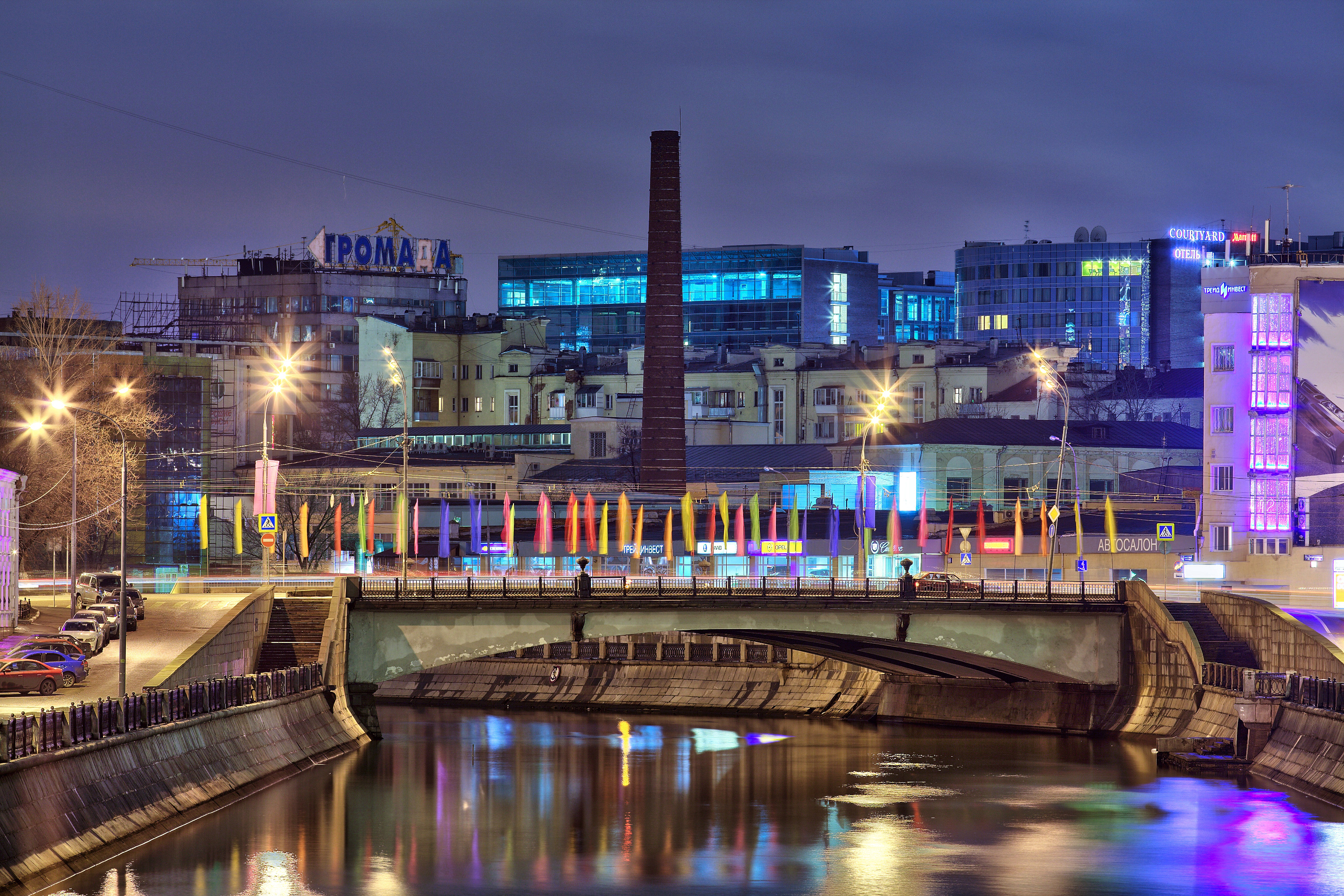 Maly Krasnokholmsky Bridge, Moscow. Canon EF 200/2.8 lens. Four exposures tone-mapped in Oloneo HDR engine. Somehow, Oloneo rendered highlights (car dealership signs just above the bridge) much better than Photomatix. Yes, I tried, honestly... // Update: By 2018, the smokestack was demolished. No big deal, but, as the Dude said, "it tied the room together"...